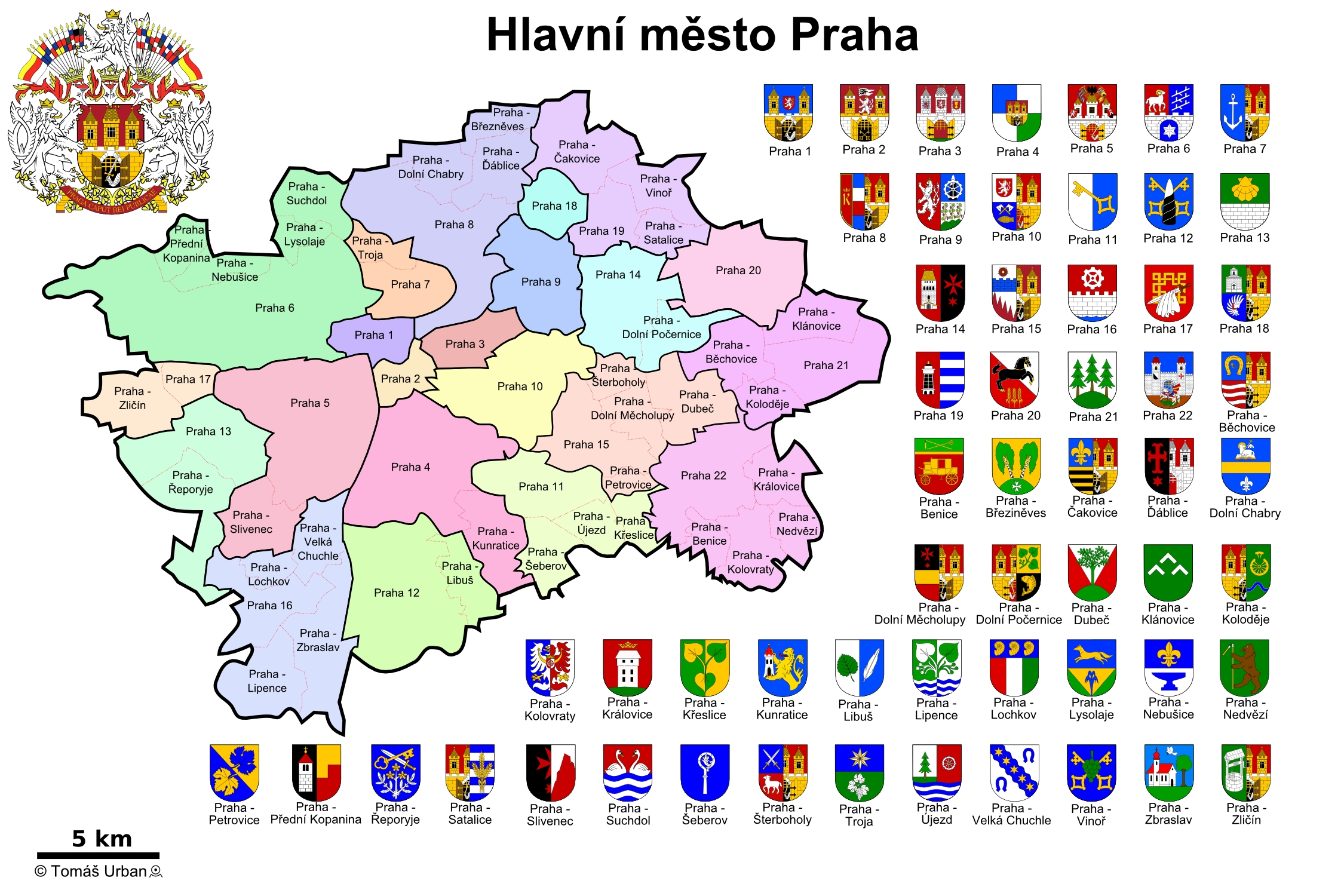 Heraldic map of districts of Prague